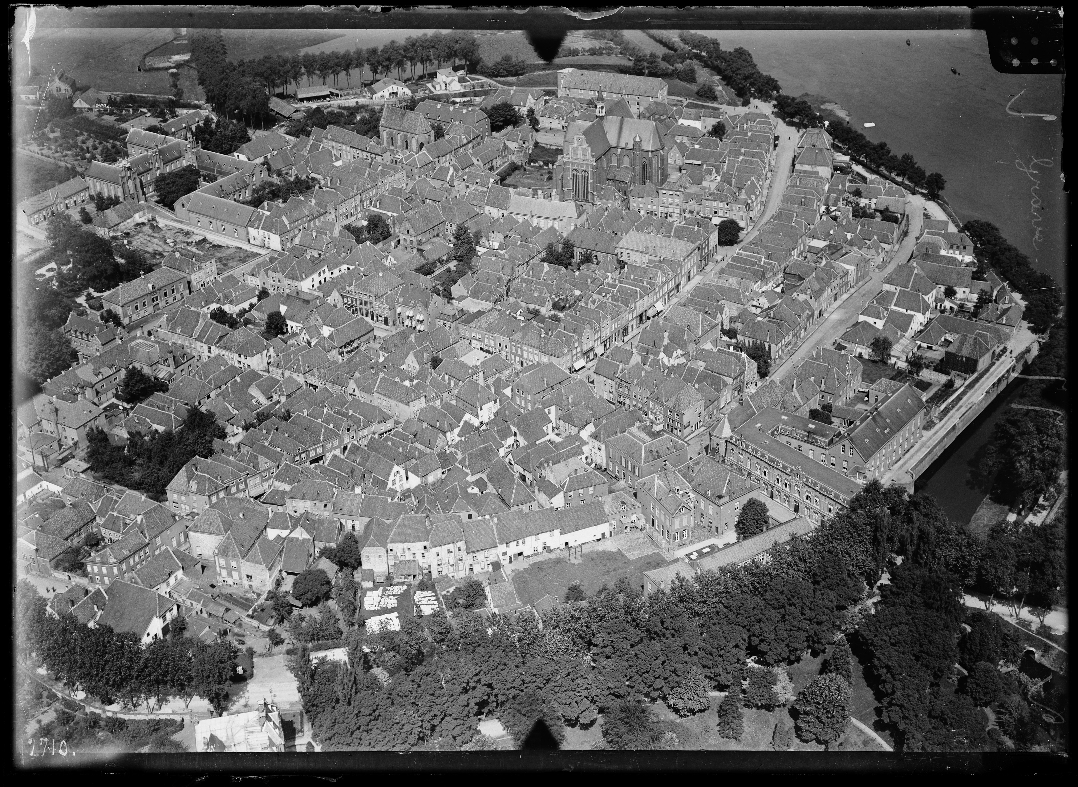 Aerial photograph of Grave, The Netherlands